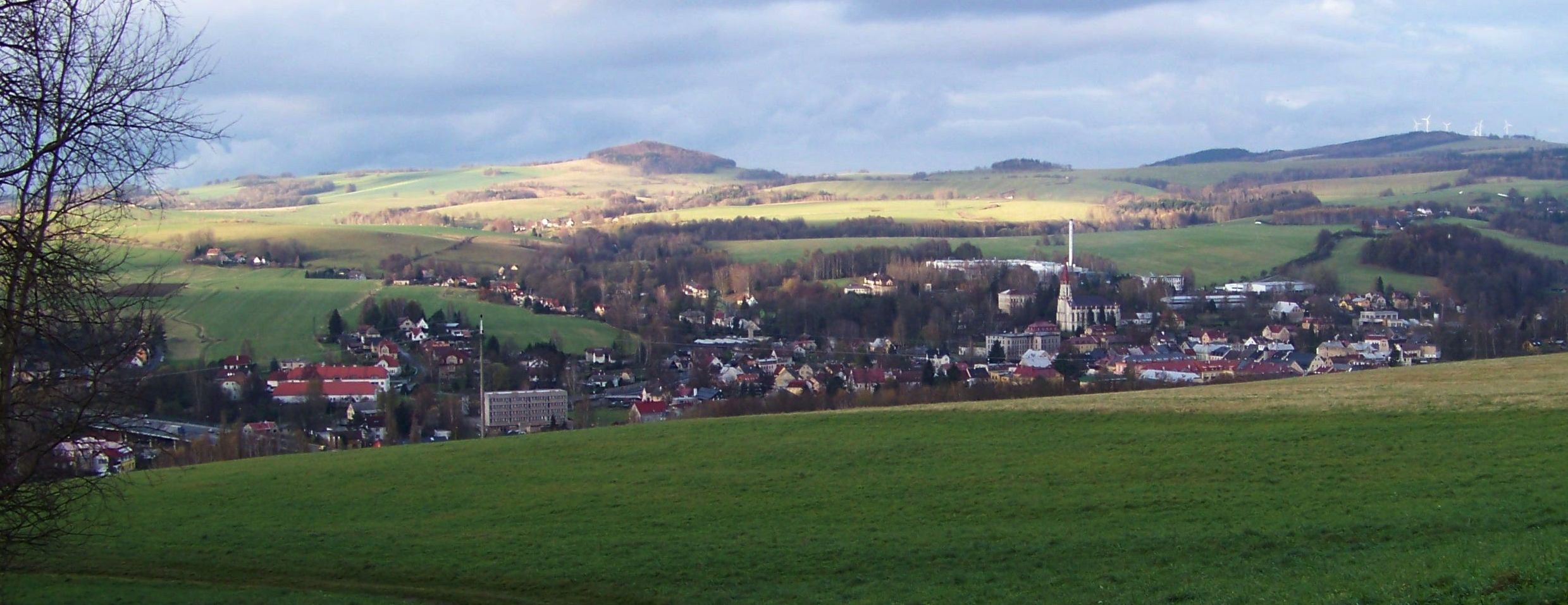 Chrastava, Liberec District, Liberec Region, Czech Republic. A view from the south. - Google Maps - Google Earth